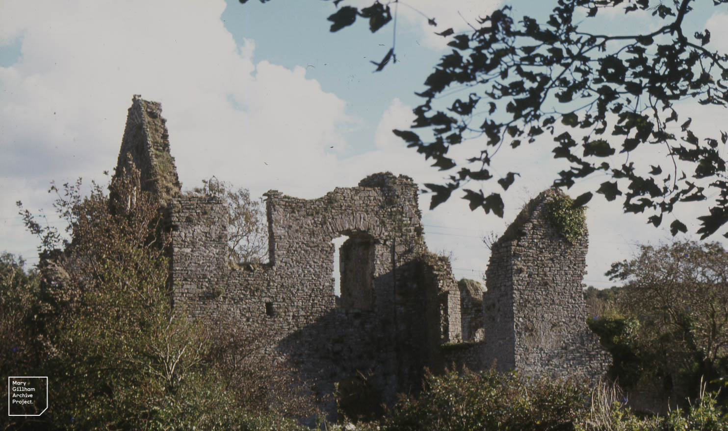 Llantrithyd Place, Llantrithyd, Vale of Glamorgan, Wales. A ruined 16th century manor house. Llantrithyd Place